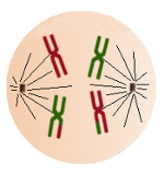 anaphase 1 in meiosis